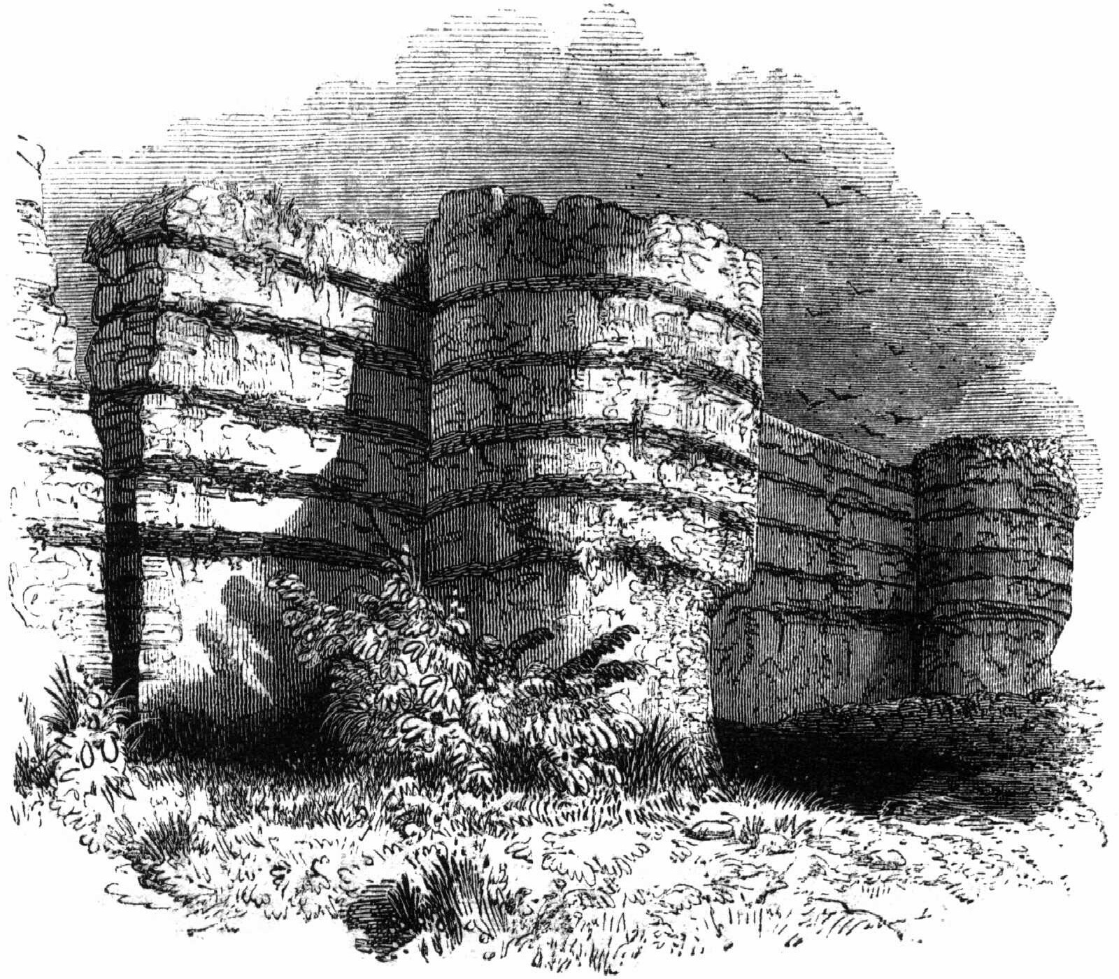 19th Century engraving of the walls of Burgh Castle, on the Norfolk/Suffolk border